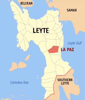 Map of Leyte showing the location of La Paz